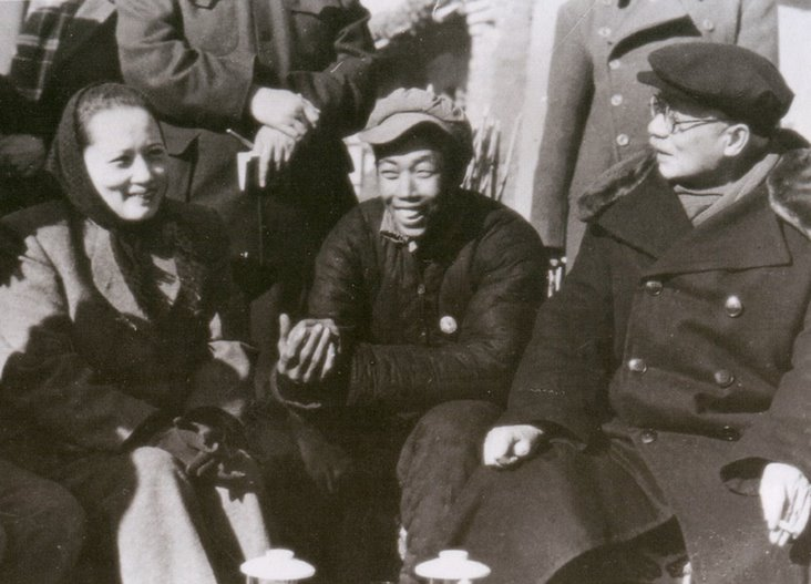 Soong Ching-ling and Lin Boqu were in Northeastern China's farm